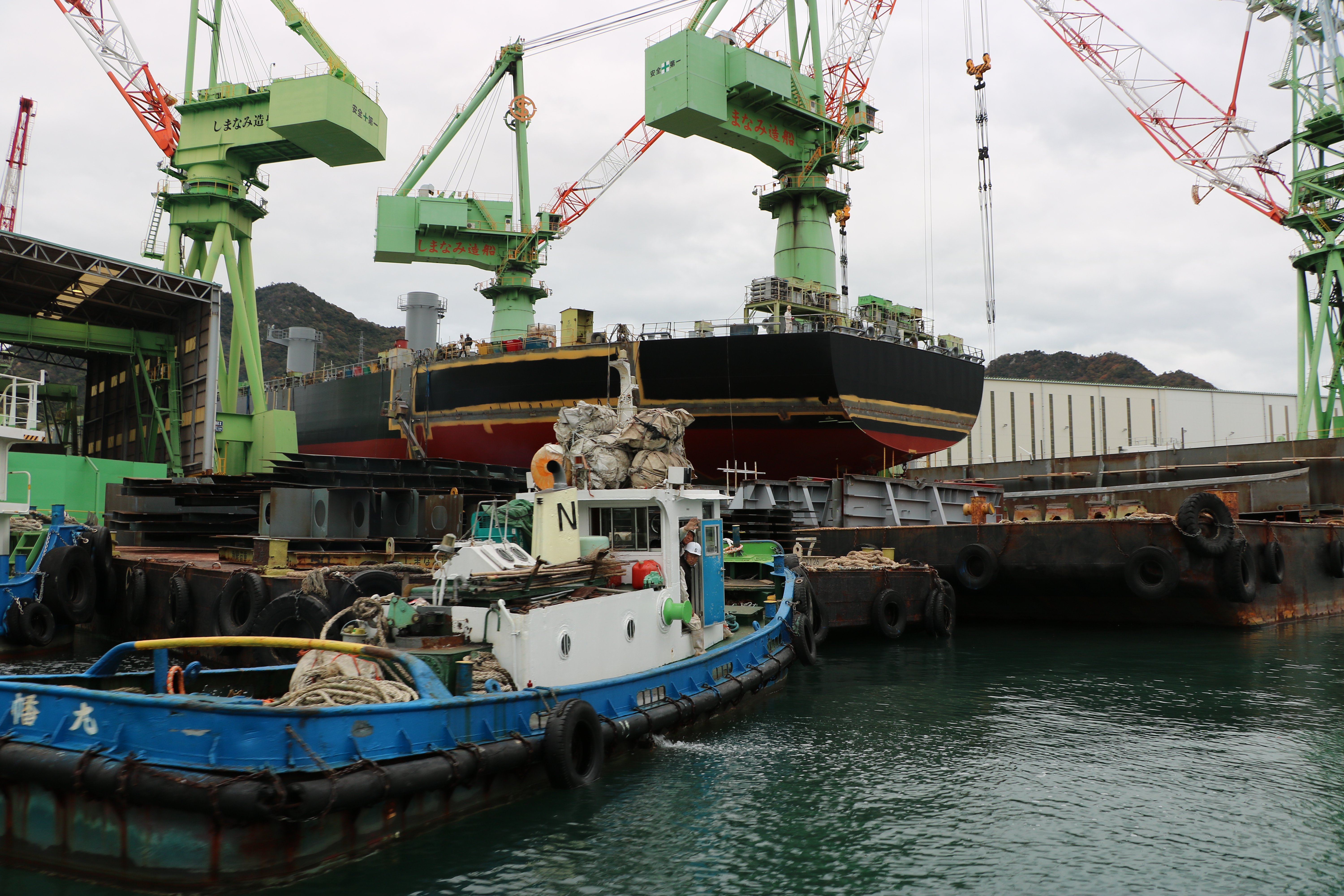 Shimanami shipyard.